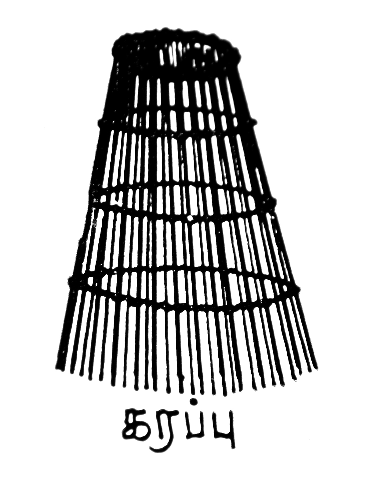 A fishing basket - uses in Sri Lanka